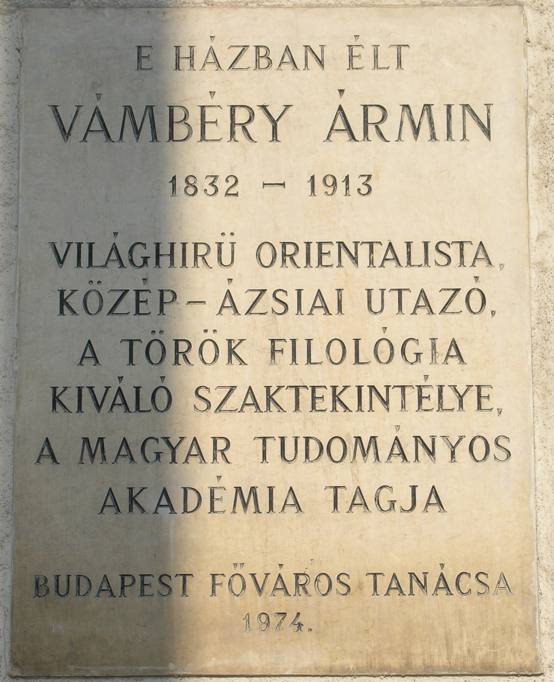 Commemorative plaque of Ármin Vámbéry, Budapest District V, Belgrád Quay No 24